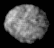 Image:Larissa.jpg cropped and cut down to show only one image. The photojournal caption for the original image: These Voyager 2 images of satellite 1989N2 at a resolution of 4.2 kilometers (2.6 miles) per pixel reveal it to be and irregularly shaped, dark object. The satellite appears to have several craters 30 to 50 kilometers (18.5 to 31 miles) across. The irregular outline suggests that this moon has remained cold and rigid throughout much of its history. It is about 210 by 190 kilometers (130 by 118 miles), about half the size of 1989N1. It has a low albedo surface reflecting about 5 percent of the incident light. The Voyager Mission is conducted by JPL for NASA's Office of Space Science and Applications.